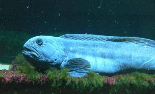 Author. Photo taken by User:Haplochromis